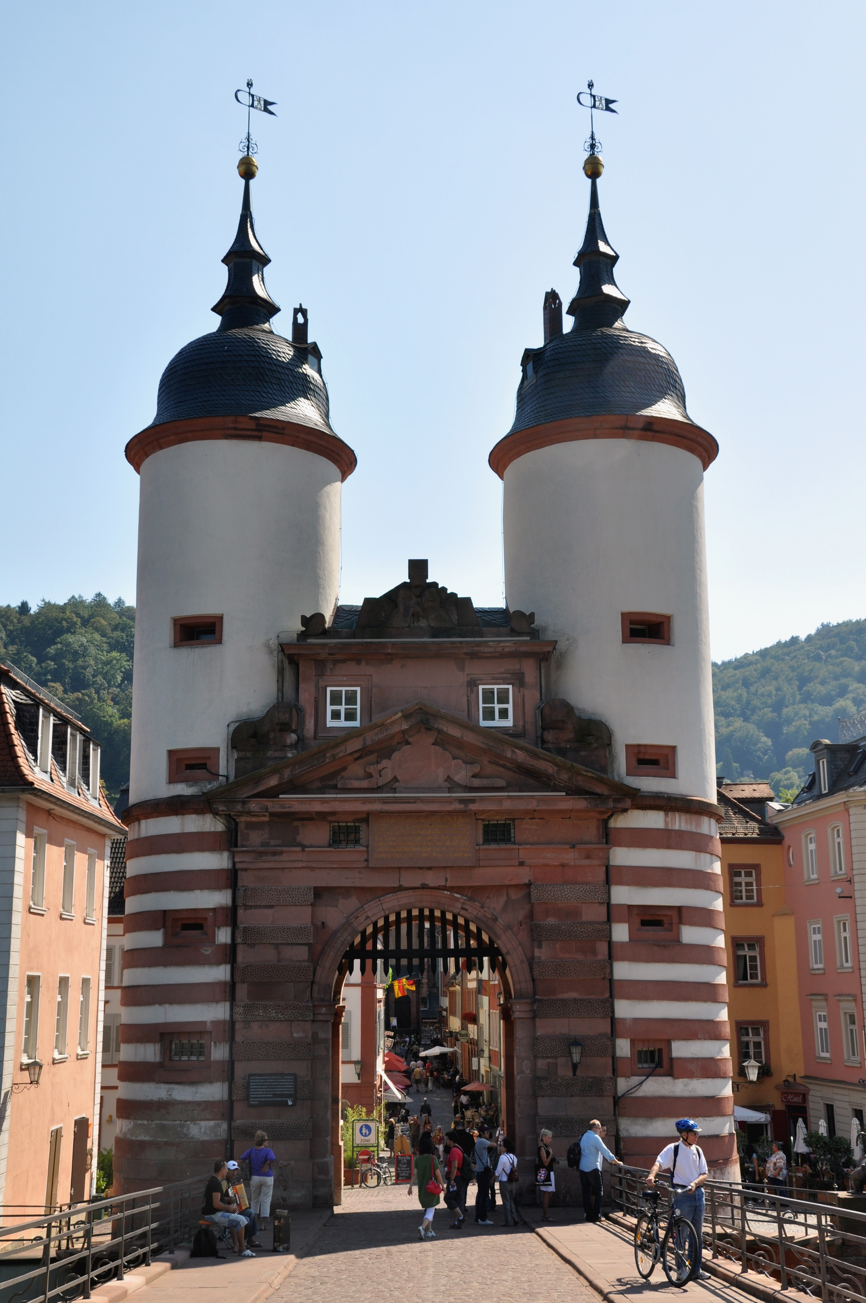 Old Bridge